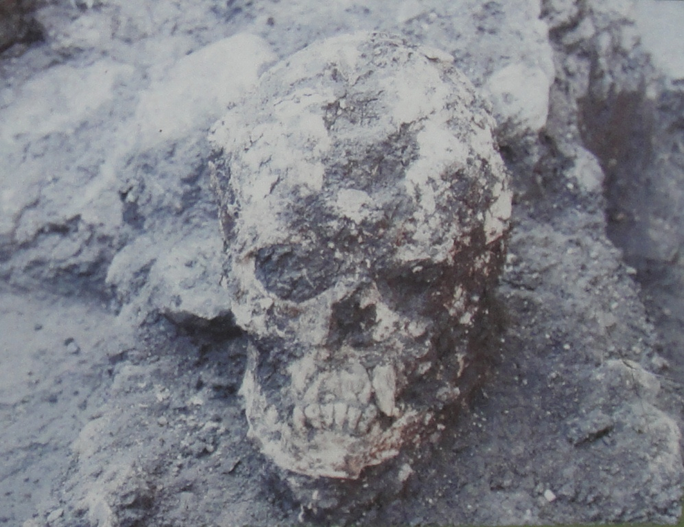 Peralta Human Skull